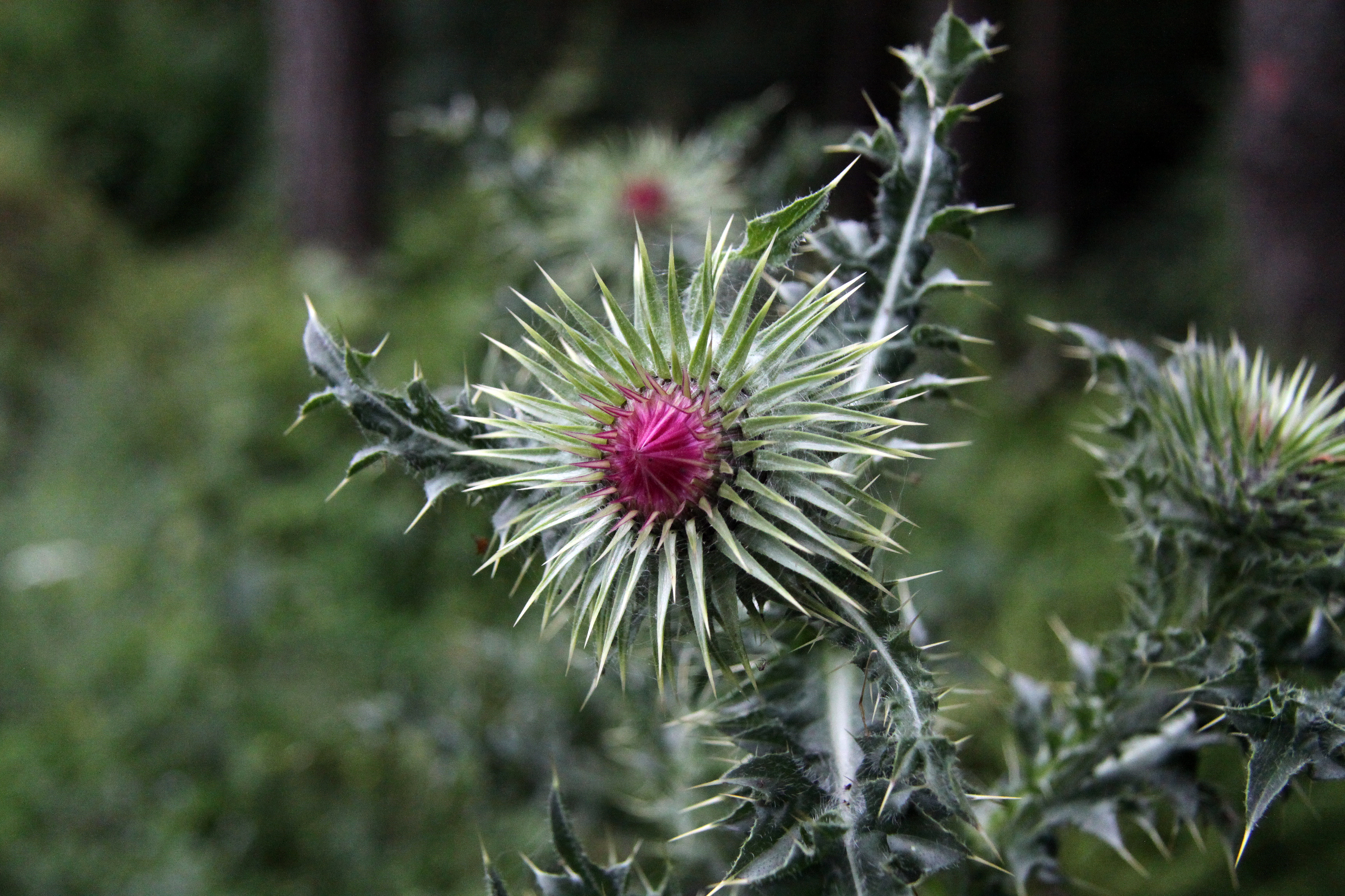 Silybum marianum, Klatovy District, Czech Republic